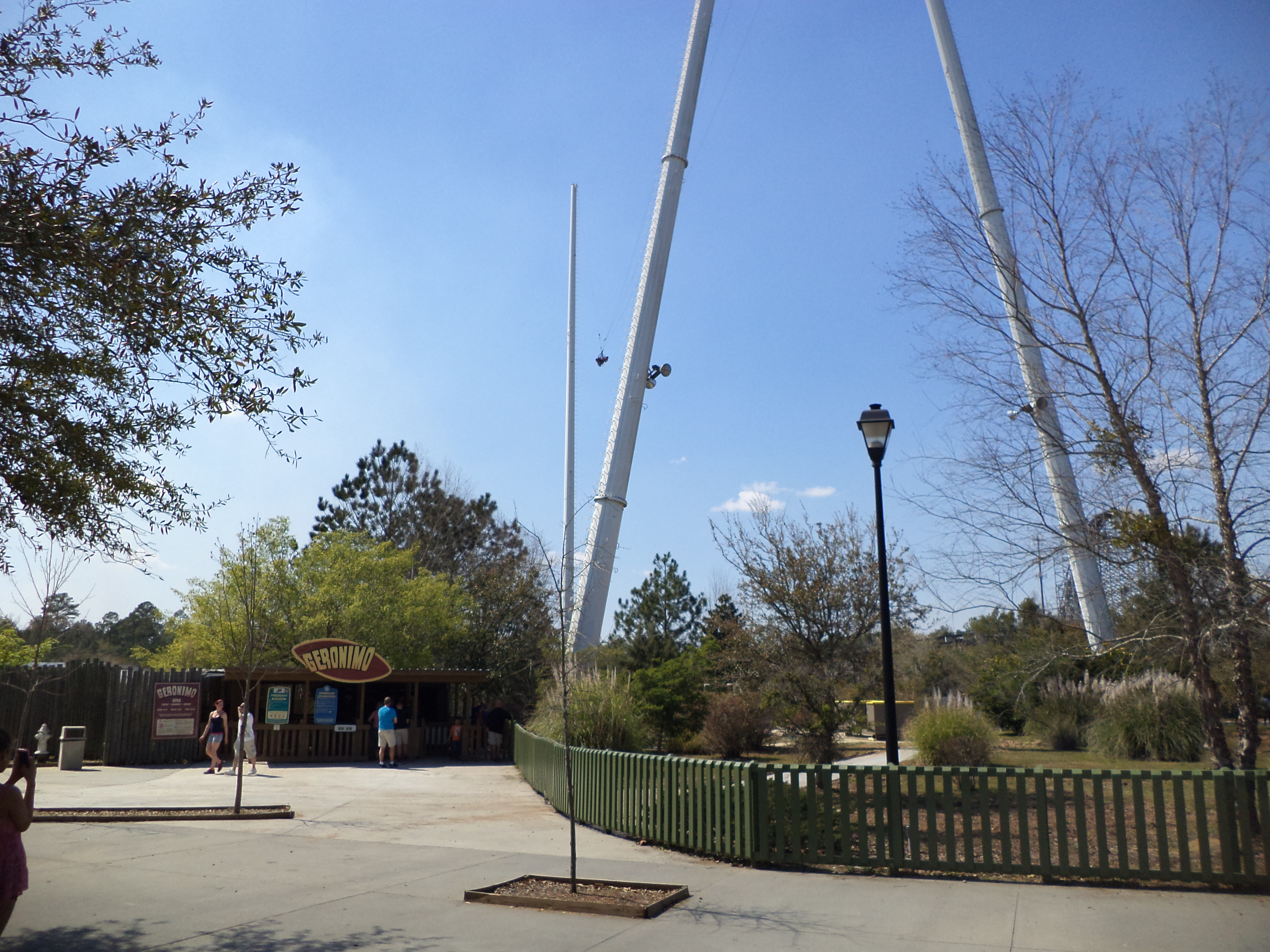 Wild Adventures, March 16, 2013